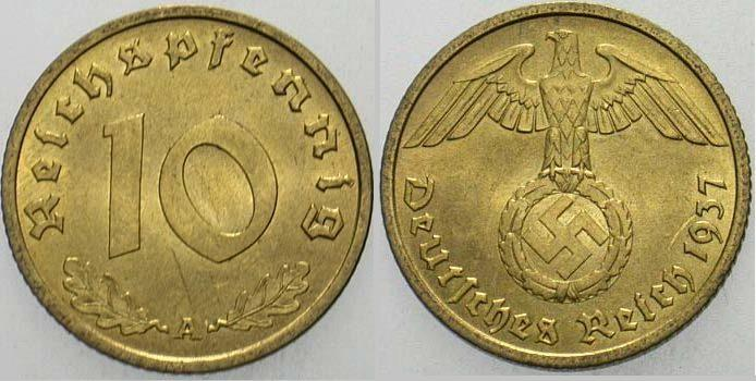 Nazi German 10 pfennig (1/100 of a Reichsmark).